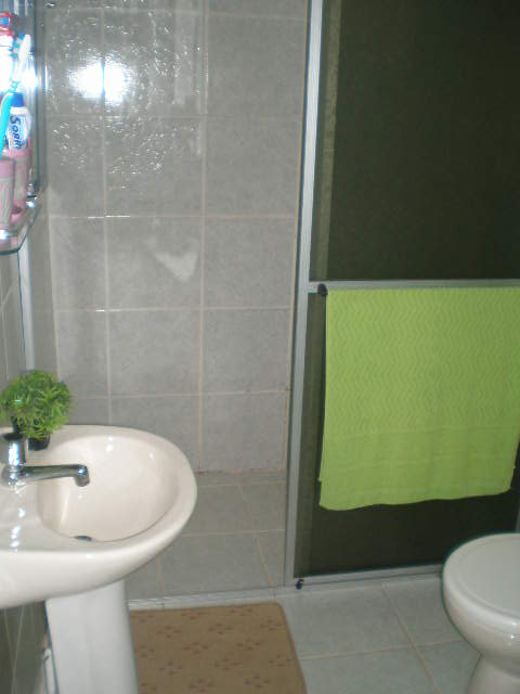 Water closet